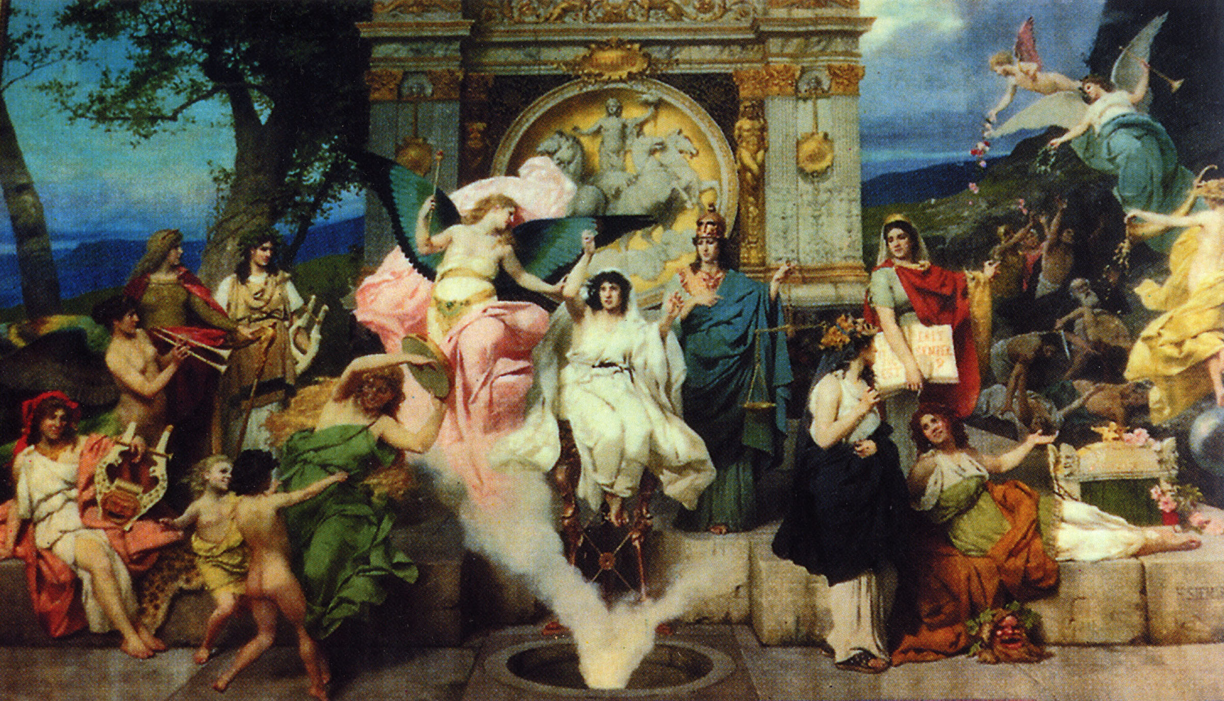 Study for curtain